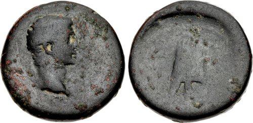 Artaxias III, with Tiberius. AD 18-34. Æ 8 Chalkoi (23mm, 10.96 g, 12h). Jugate laureate heads of Tiberius and Artaxias III (Lucius Antonius Zeno) right / Armenian tiara